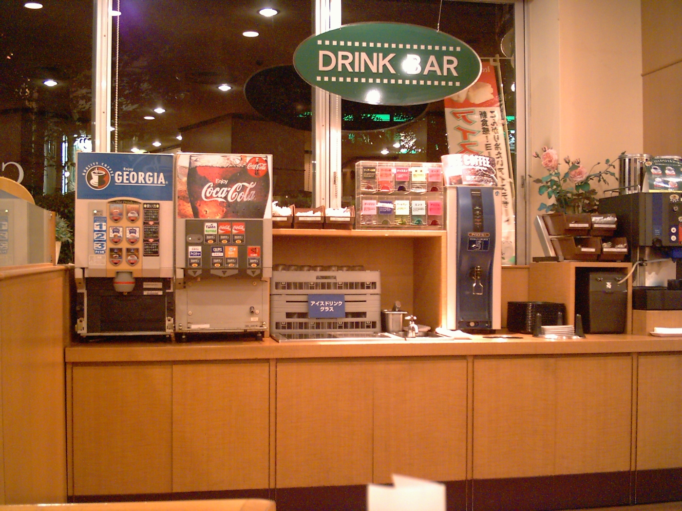 CASA Restaurant_[Oume-shi]Oume-city [CASA]